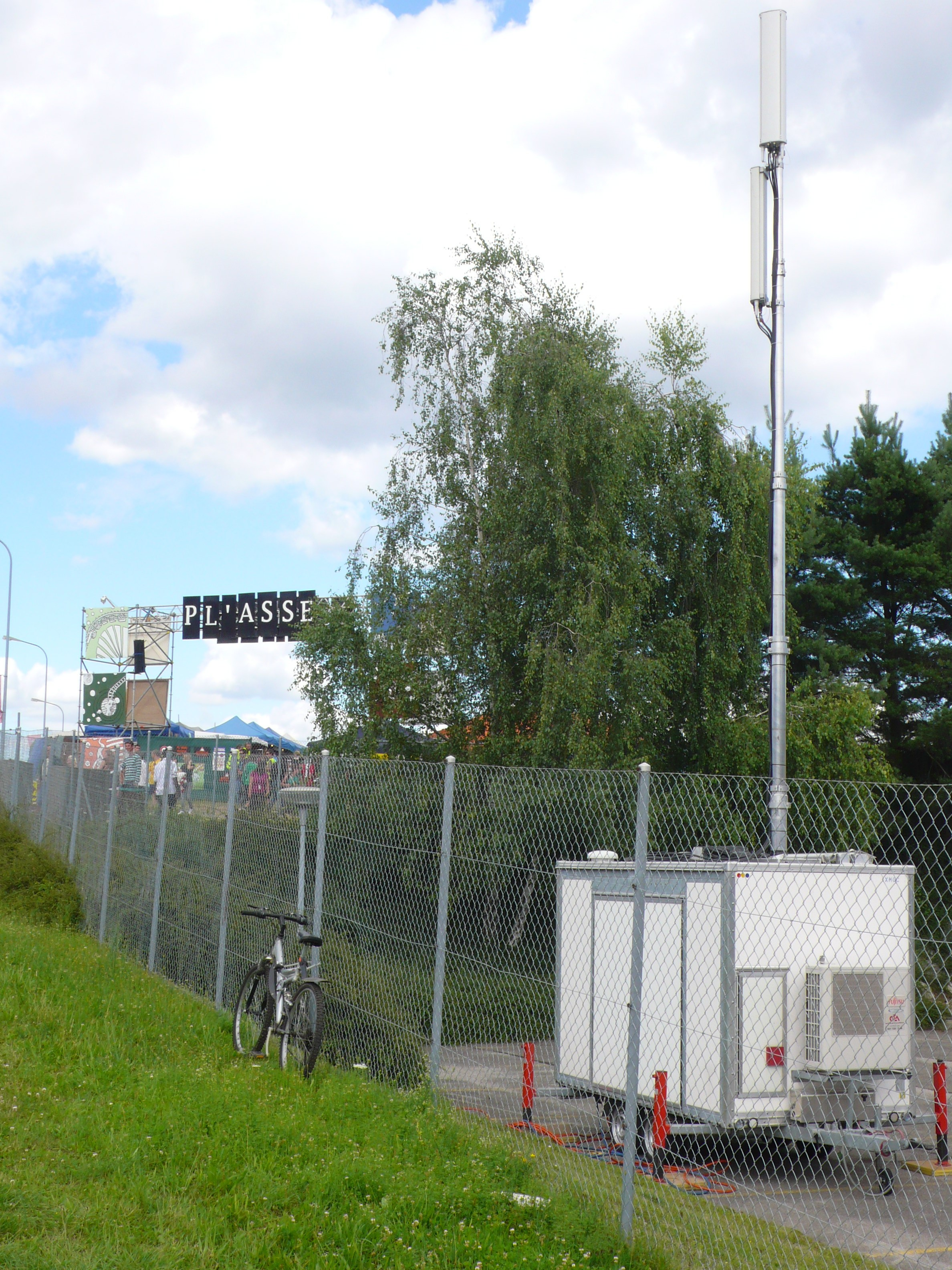 Mobile GSM base station, at the Paléo Festival